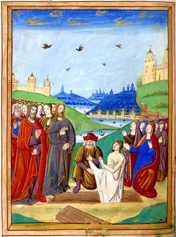 Crop of , cutting out empty white space